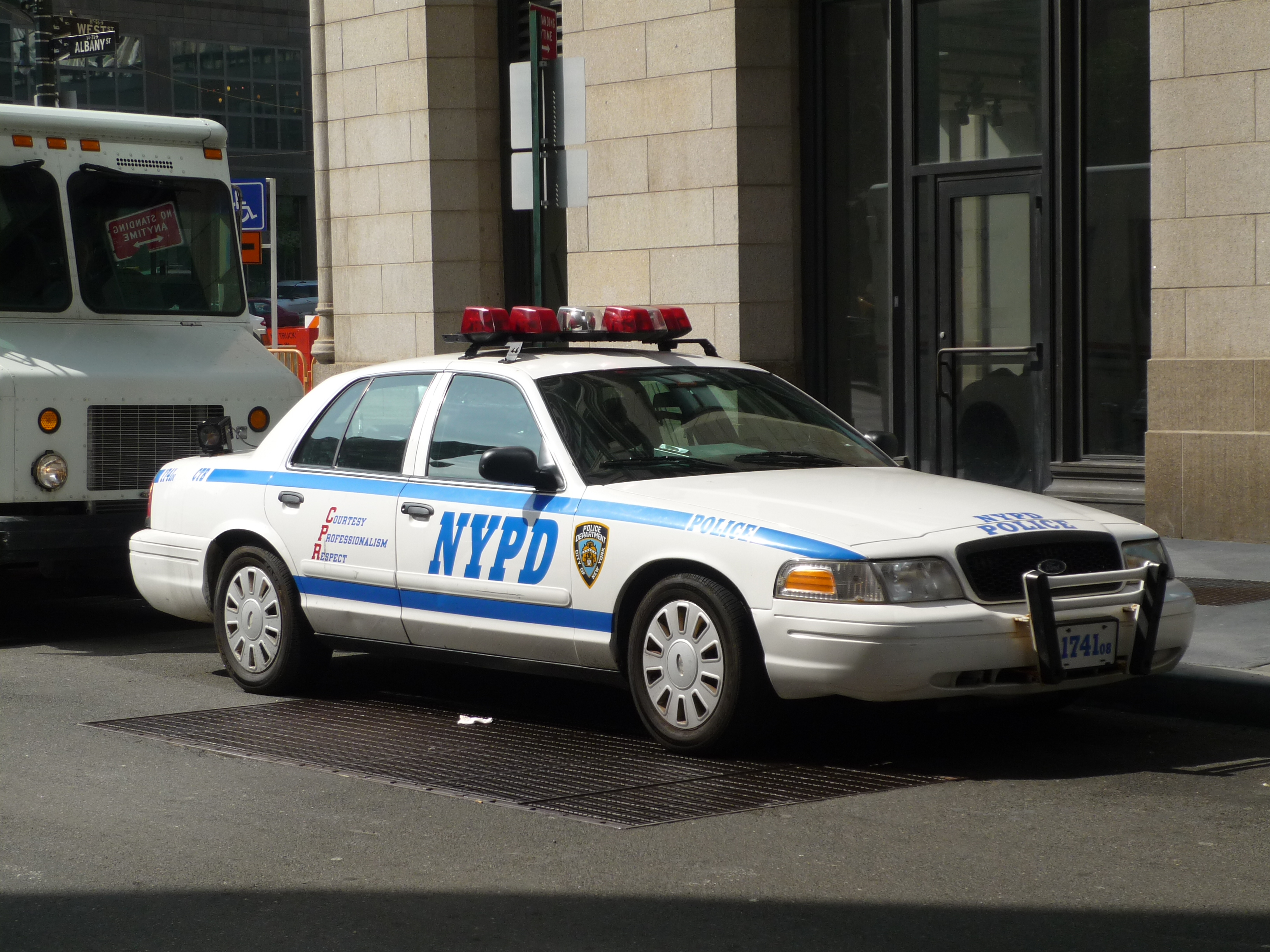 Sadly getting harder and harder to spot these... -- Jason Lawrence